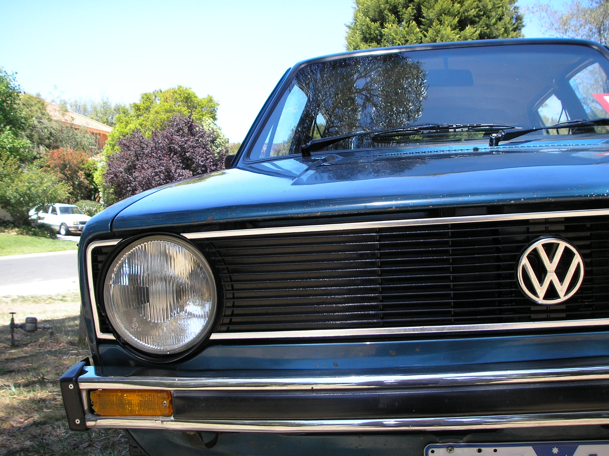 Front grill of a VW Golf Mk1. Photo taken by myself in October 2006.